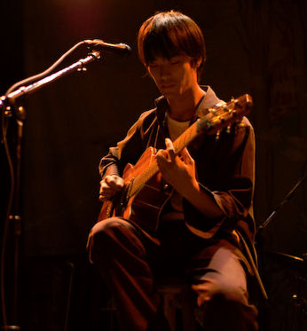 Cropped version, showing just Shugo Tokumaru.